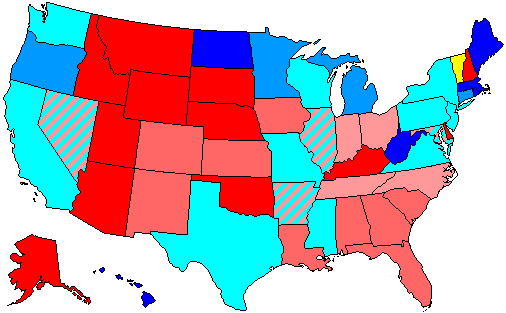 Summary of party control of U.S. house seats in the 106th United States Congress following election. Stripes indicate a tie between two or more parties. Legend: 80.1-100% Democratic seat majority 60.1-80% Democratic seat majority 60% or less Democratic seat plurality 60% or less Republican seat plurality 60.1-80% Republican seat majority 80.1-100% Republican seat majority 80.1-100% Independent seat majority